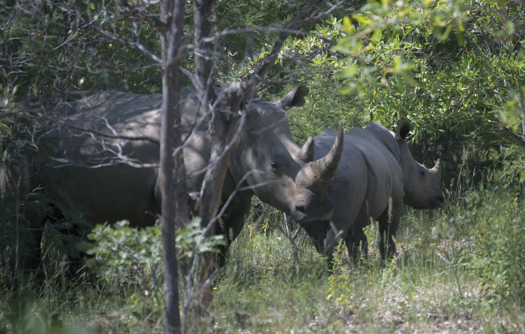 White Rhino Mother and Juvenile in Matopos National Park, Zimbabwe